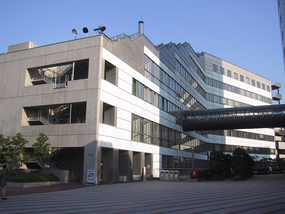 Toyo University Hakusan Campus No.1 Hall(東洋大学白山キャンパス1号館（講義棟）)